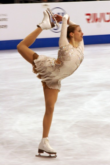 Carolina Kostner at the the 2009 World Championships.